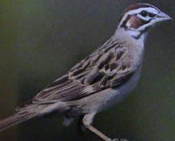 Lark Sparrow